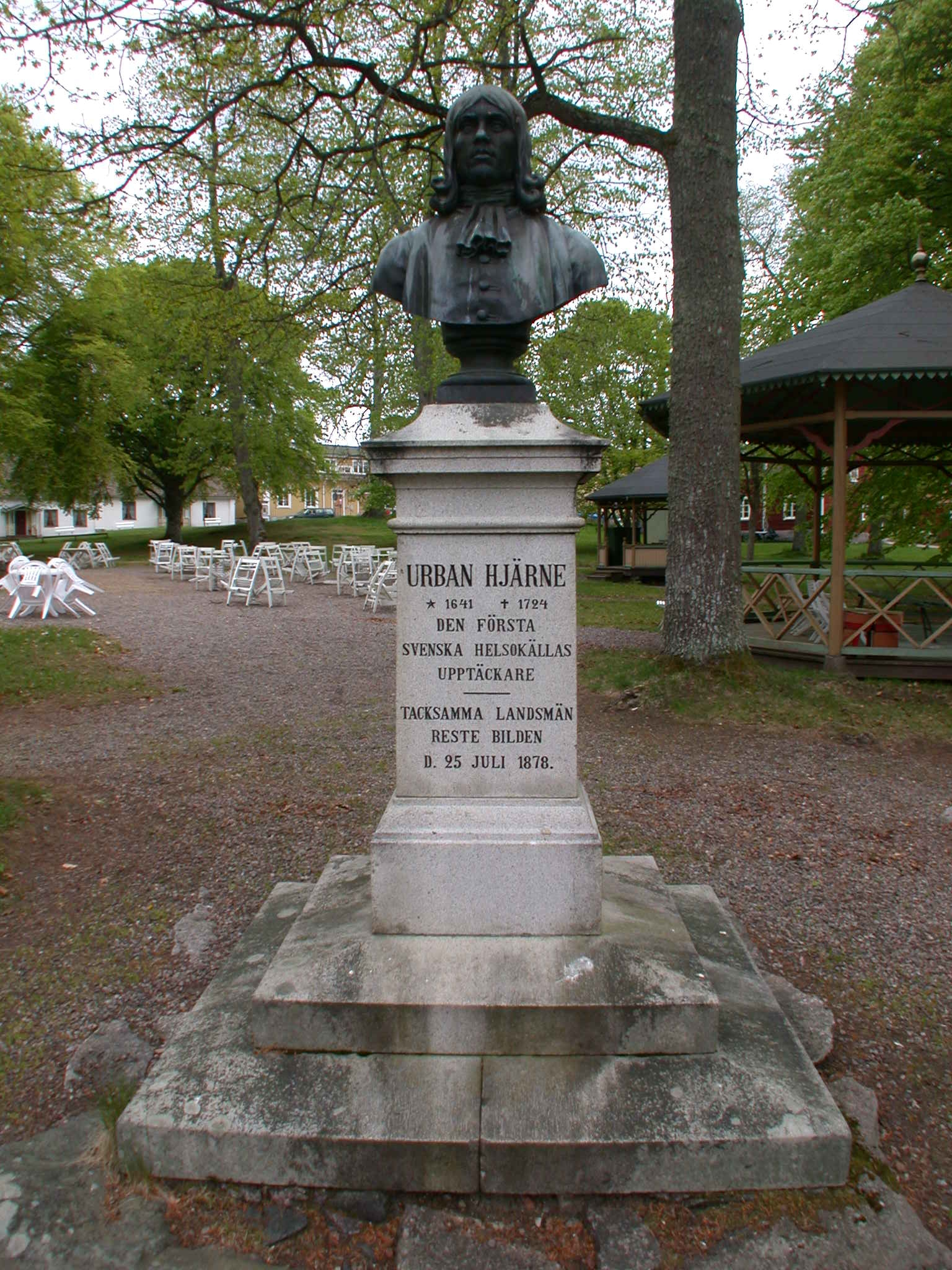 Bust of dr Urban Hjärne, Medevi Spa, Sweden. Photo by Riggwelter, May 17, 2006.